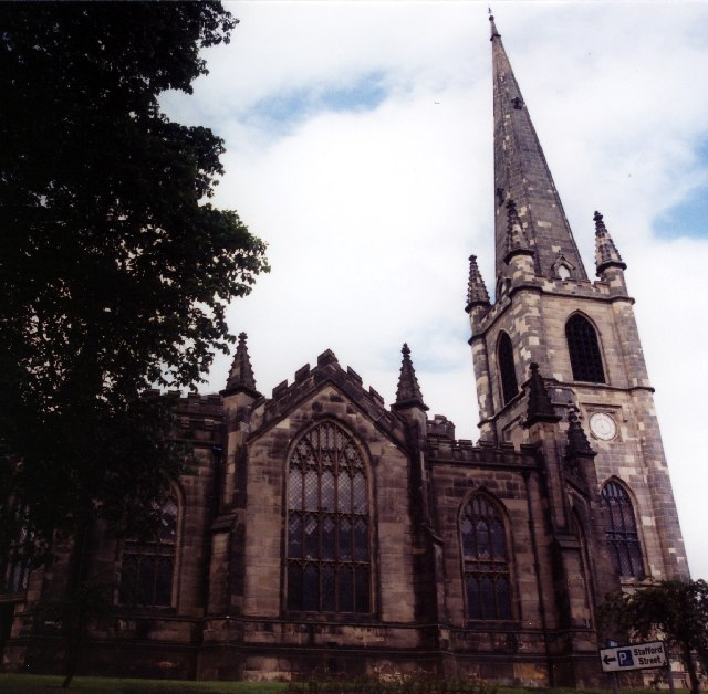 Part of the parish church of SS Thomas and Luke, Dudley, West Midlands, seen from the east from Vicar Street